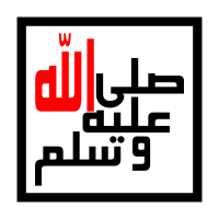 Prophet Muhammad Peace upon him- صلى الله عليه وسلم